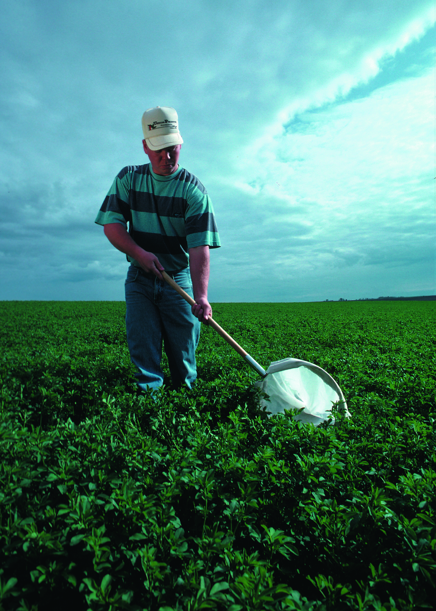 Crop consultant scouts field for pests as part of an integrated crop management system being used in northeast Iowa.